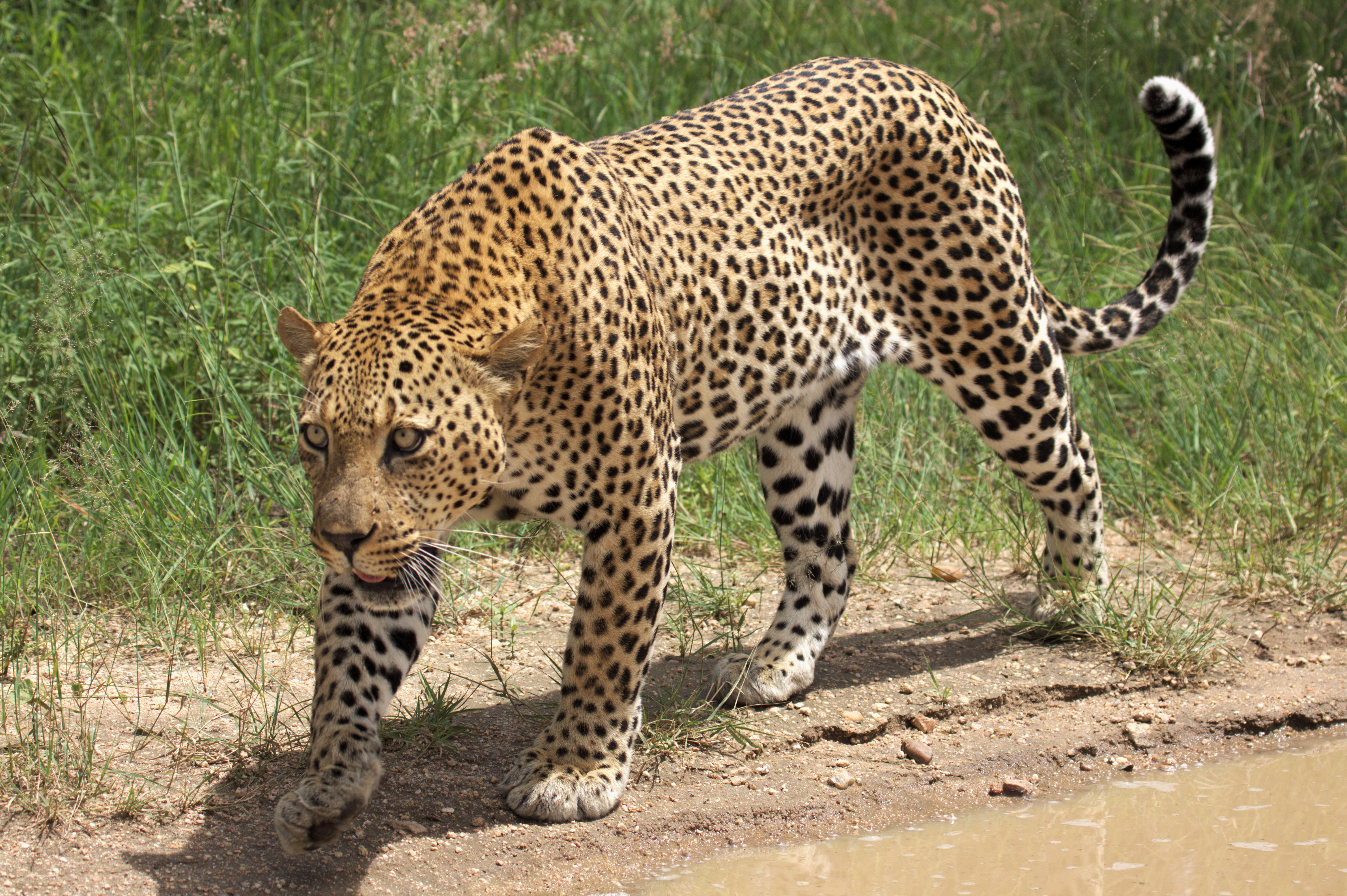 African leopard, Panthera pardus pardus, near Lake Panic, Kruger National Park, South Africa